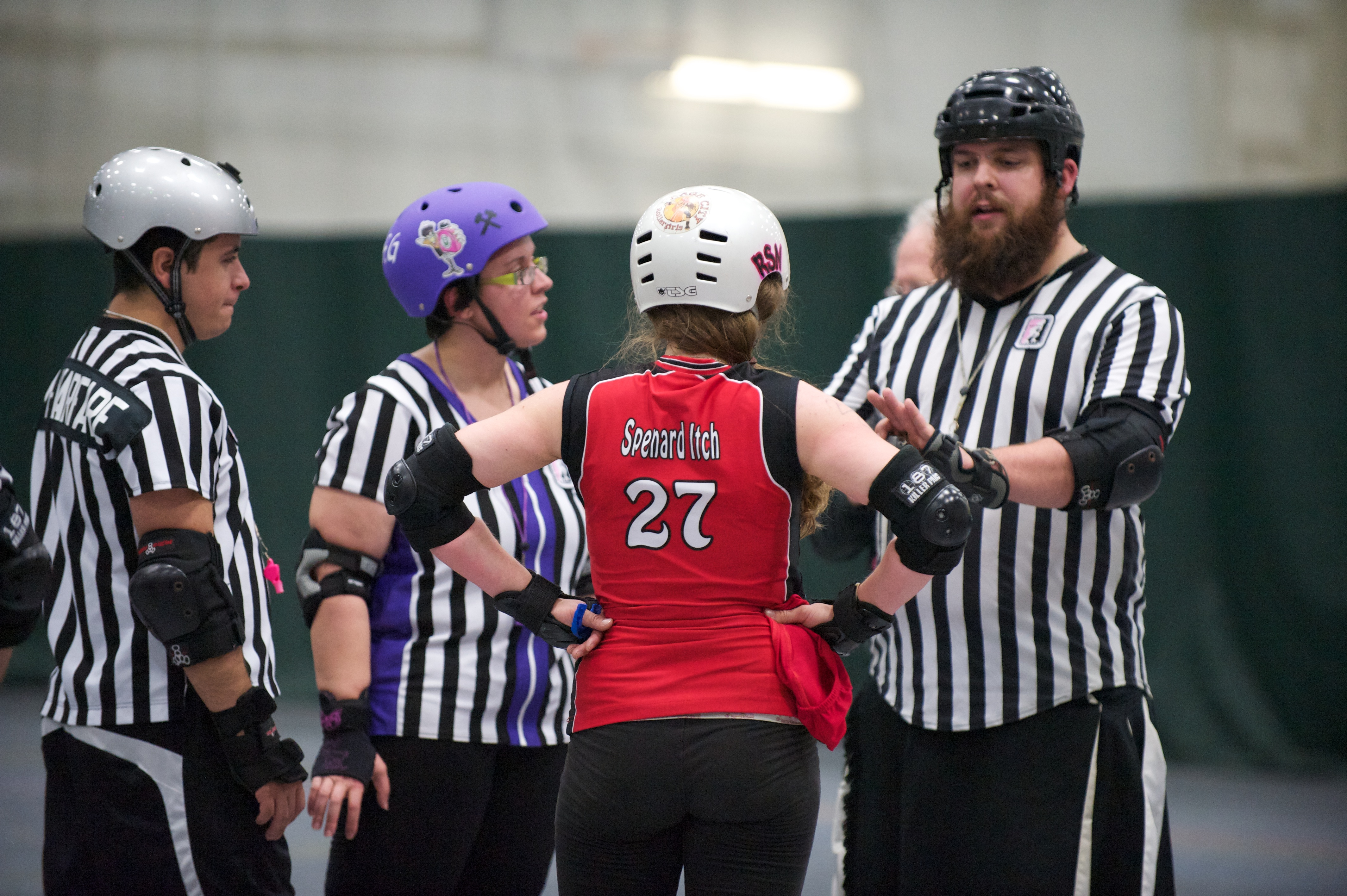 Sallys Practice-20120913-333